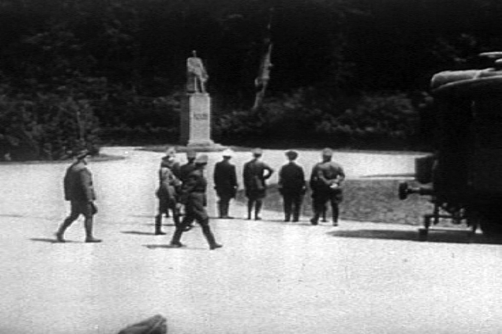 Hitler (hand on side) and German high-ranked nazis and officers staring at WWI French marshall Maréchal Foch's memorial statue before entering the railway carriage in order to start the negotiations for the 1940 armistice at Rethondes in the Compiègne forest, France. The armistice will only be signed the next day (June 22), Hitler being absent, by General Keitel on the German side and by General Huntziger on the French side. Screenshot taken from the 1943 United States Army propaganda film Divide and Conquer (Why We Fight #3) directed by Frank Capra and partially based on news archives, animations, restaged scenes and captured propaganda material from both sides.